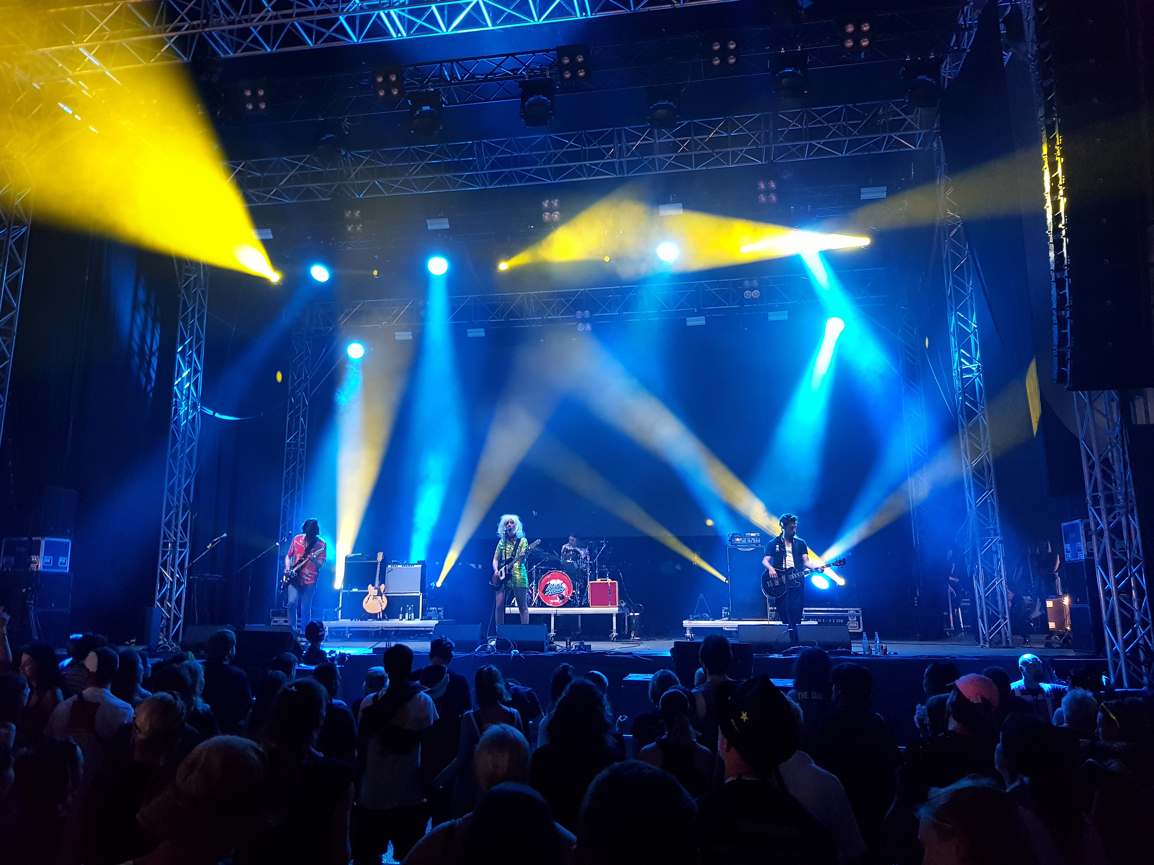 Black Honey performing live at Southside Festival 2019, Neuhausen ob Eck, Germany